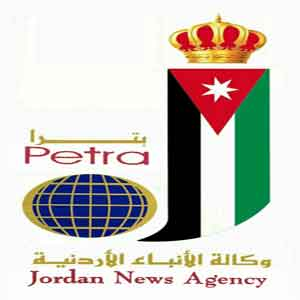 Jordan News Agency-Petra